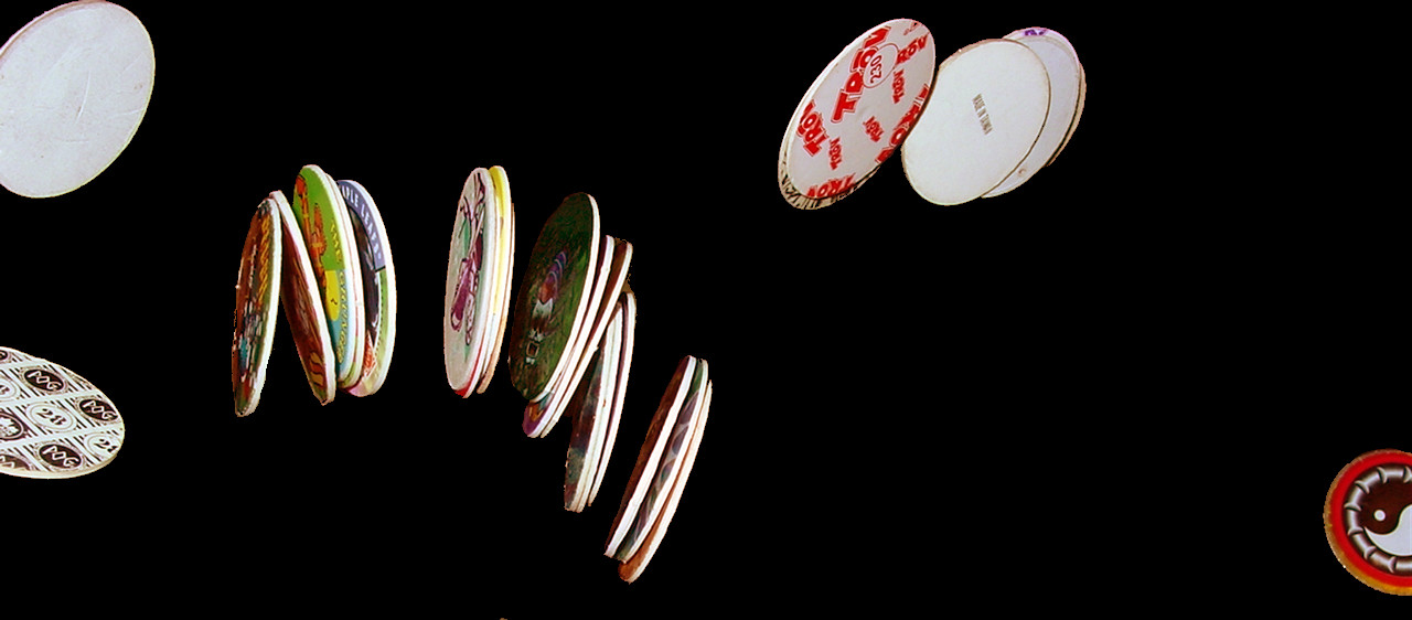 High-speed image taken directly after pogs were hit with slammer. Slammer is visible on far right of image.